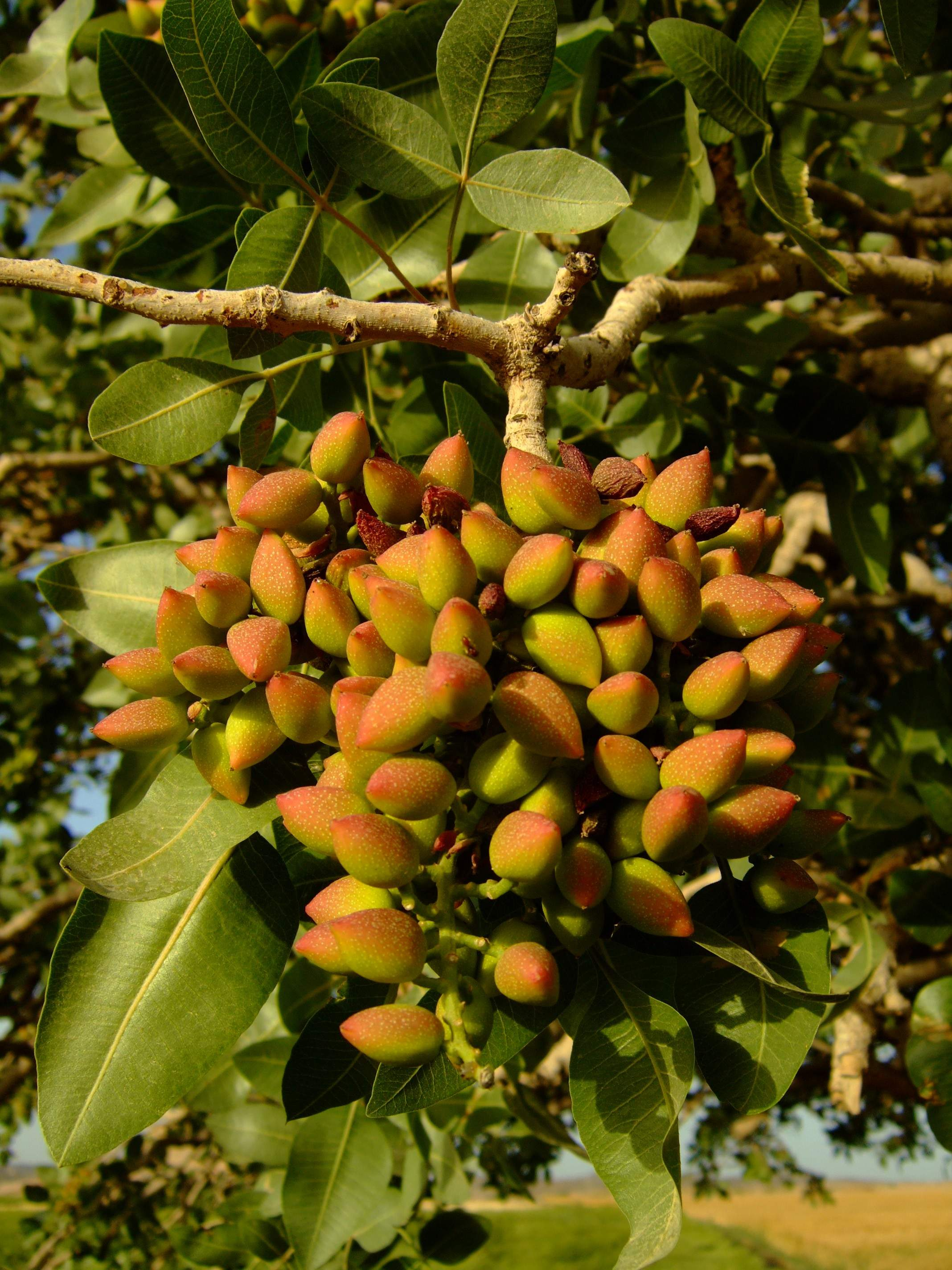 Iranian pistachio.